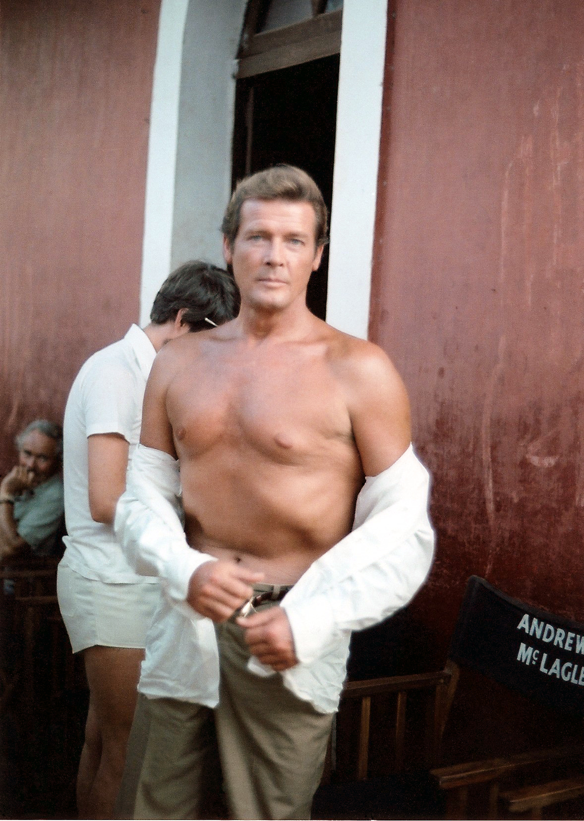 Roger Moore posing on the set of The Sea Wolves (1980), Goa, December, 1979.